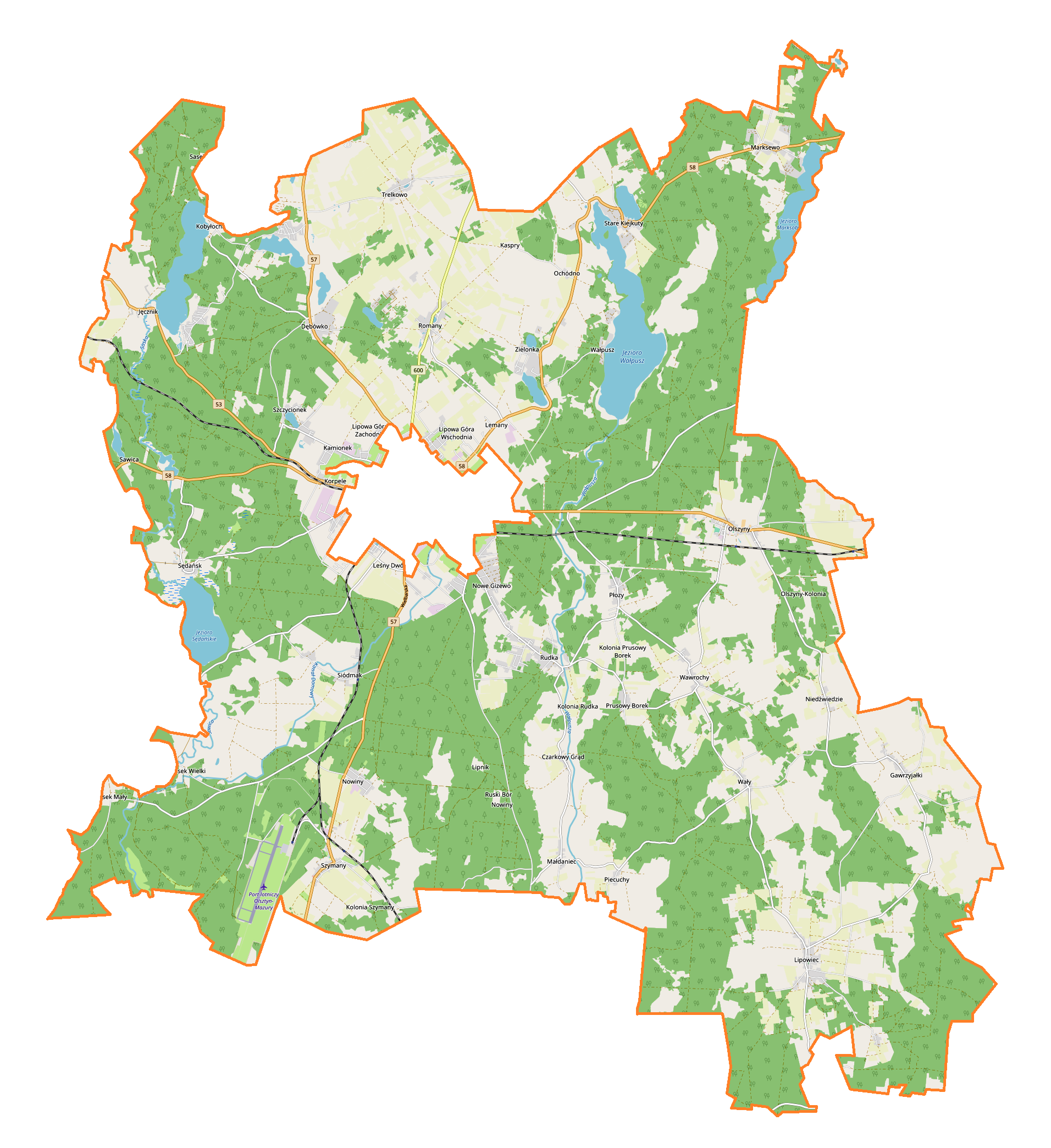 Location map